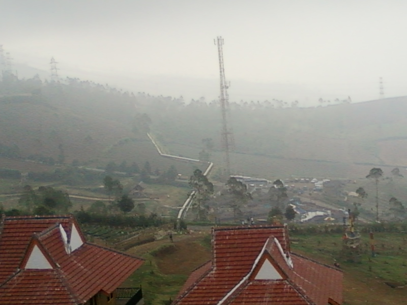 It is one of nice place in Garut